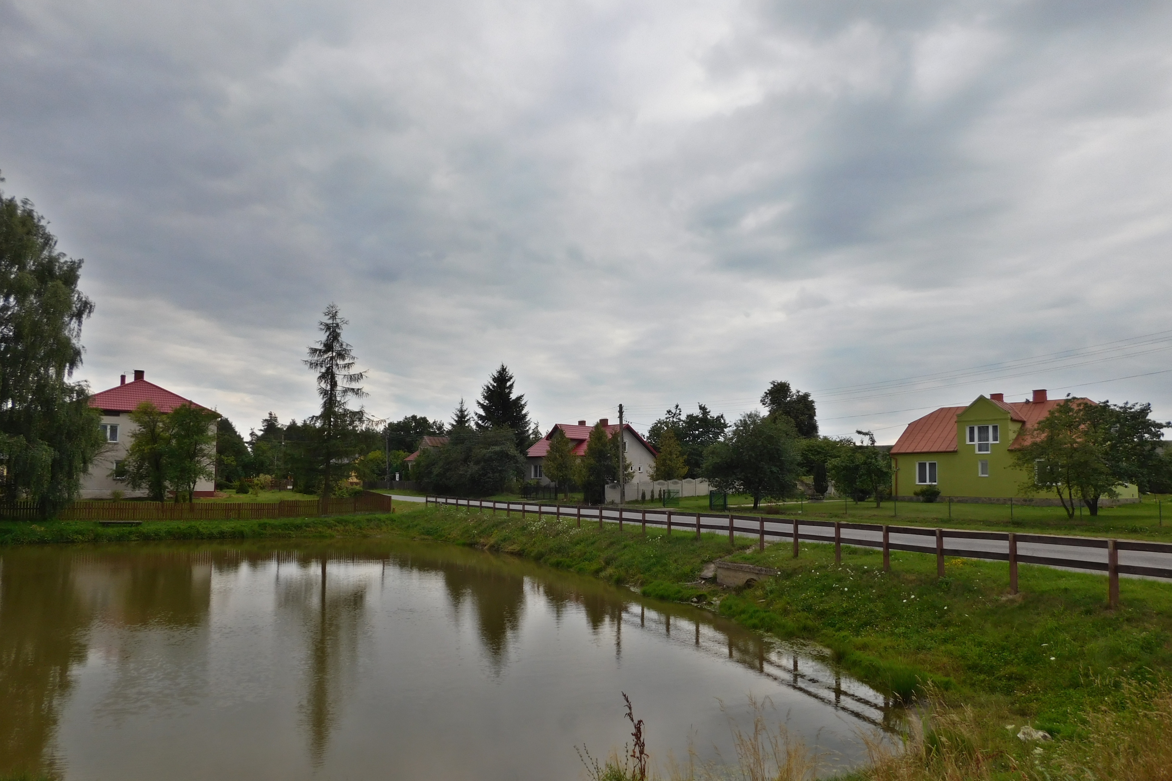 Czarnowo-Biki - part of the village